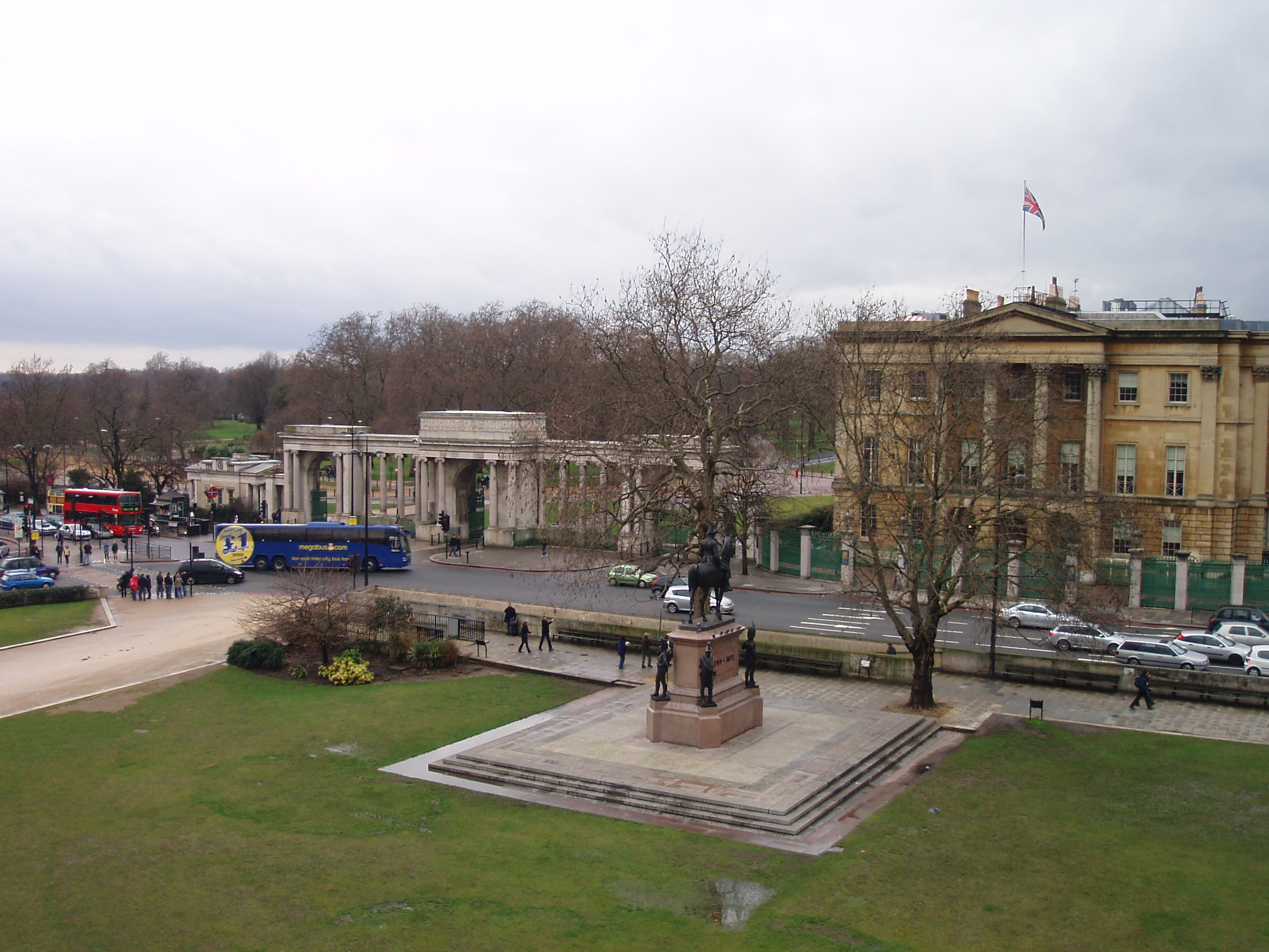 View from the Wellington Arch, Hyde Park Corner, London, UK. 28/02/2010.